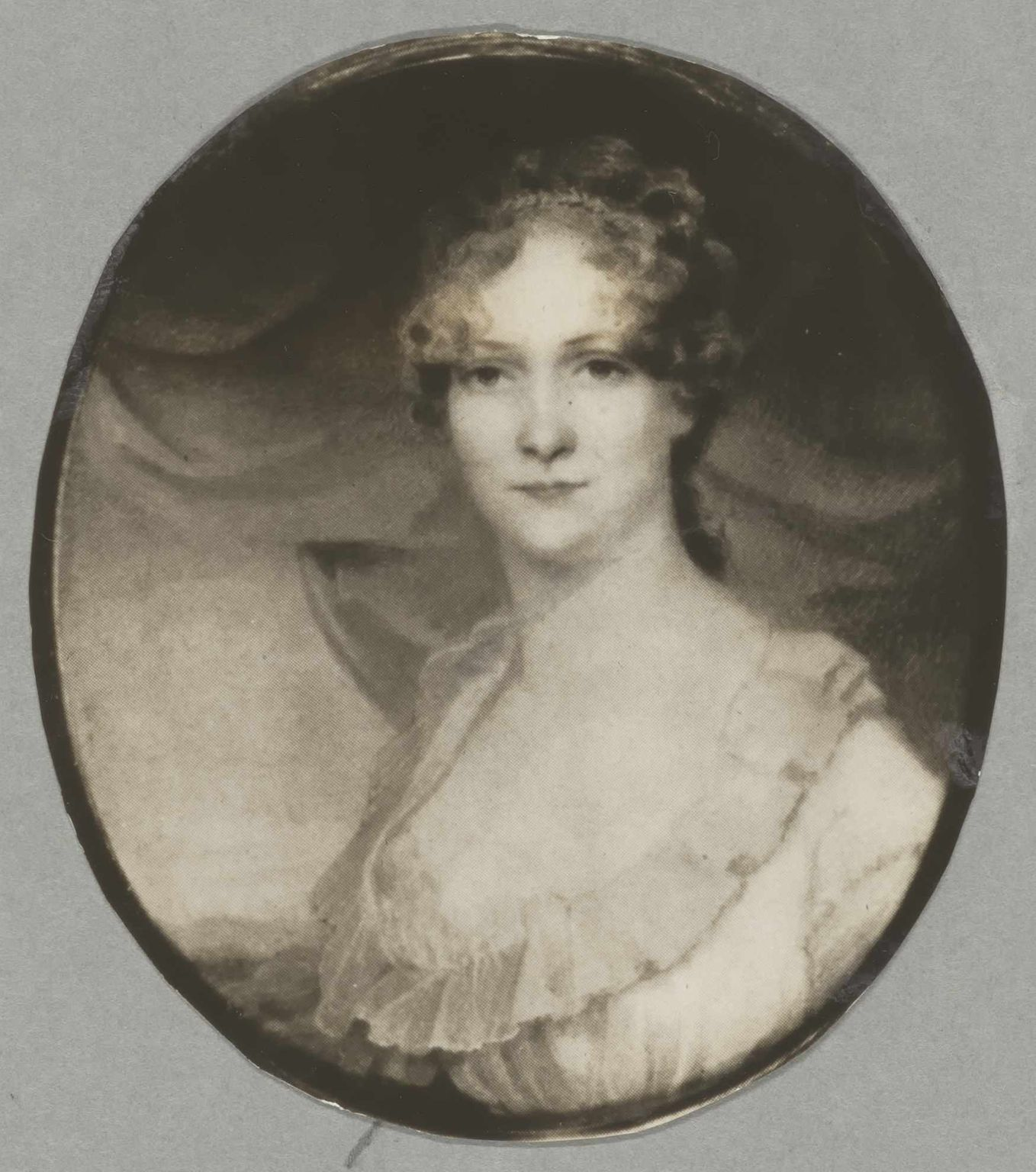 Mary Tayloe Lloyd (Mrs. Francis Scott Key). Author/Artist:Field, Robert, 1769?-1819 Creation Date:1802 (?); 1803 (?); ca. 1803-05 Description:Graphic reproduction(s) with documentation of a miniature. 3 x 2 1/2 in. watercolor on ivory.